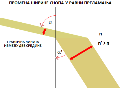 ШИРИНА ПРЕЛОМЉЕНОГ СНОПА СВЕТЛОСТИ